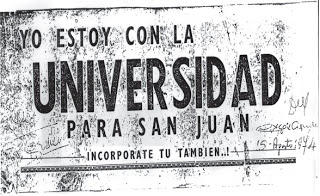 First Pro-University propaganda for San Juan de Los Morros, Venezuela. These had the mission of inciting the youth to found a university.